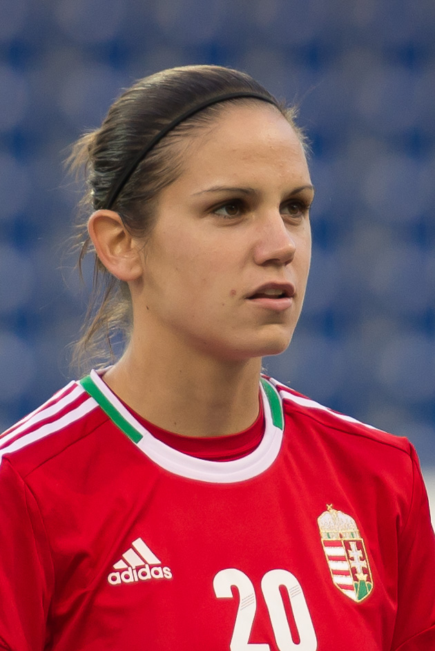 FIFA Women's World Cup 2015: Qualifying Round St. Pölten, 13.09.2014 Lilla Sipos